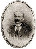 Manwel Dimech )25 December 1860, Valletta – died 17 April 1921, Sidi Bishr) was the pre-eminent workers' leader in pre-independence Malta, a journalist, and a writer of novels and poetry.